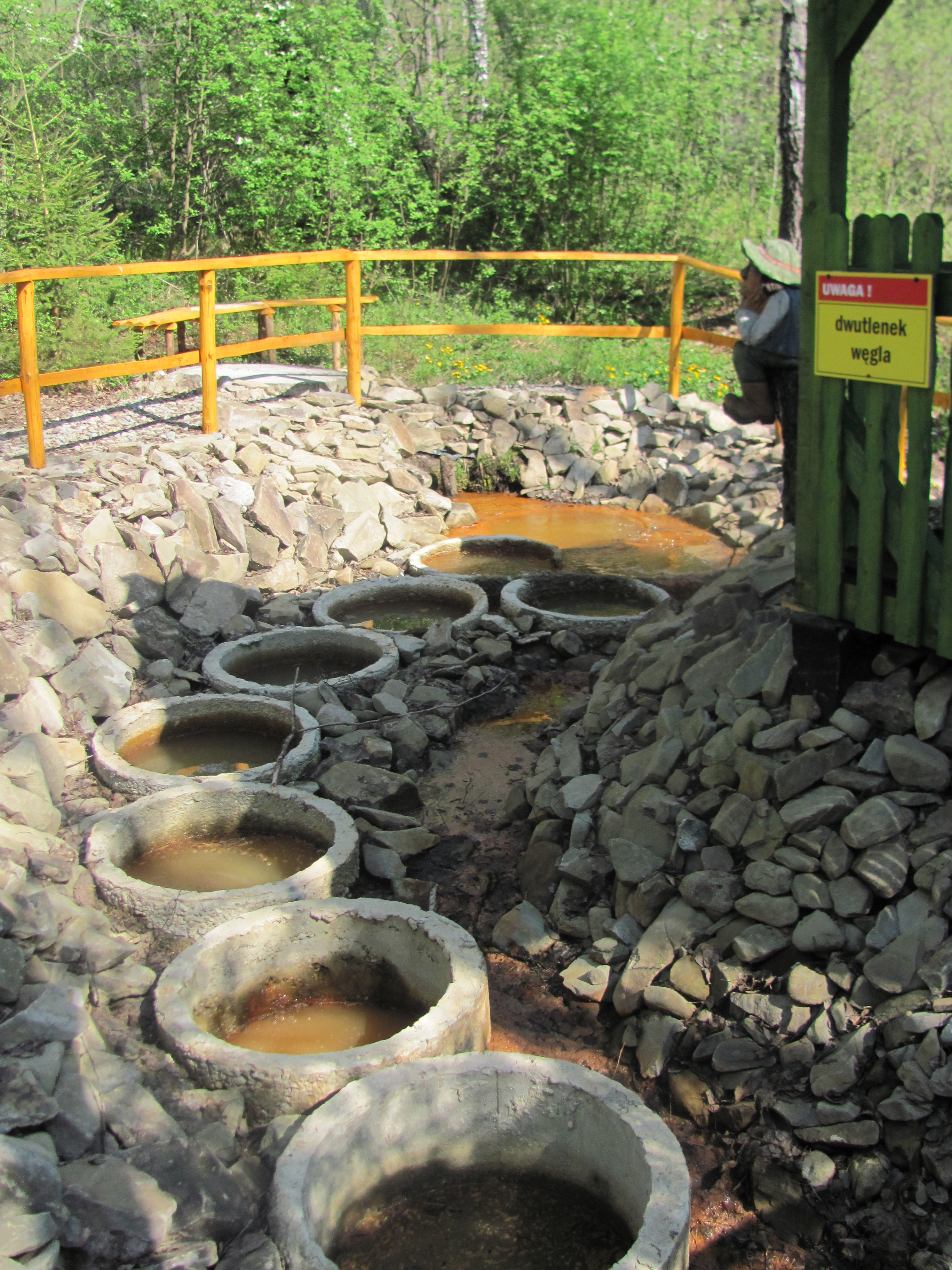 Mofetta in Tylicz, Poland.